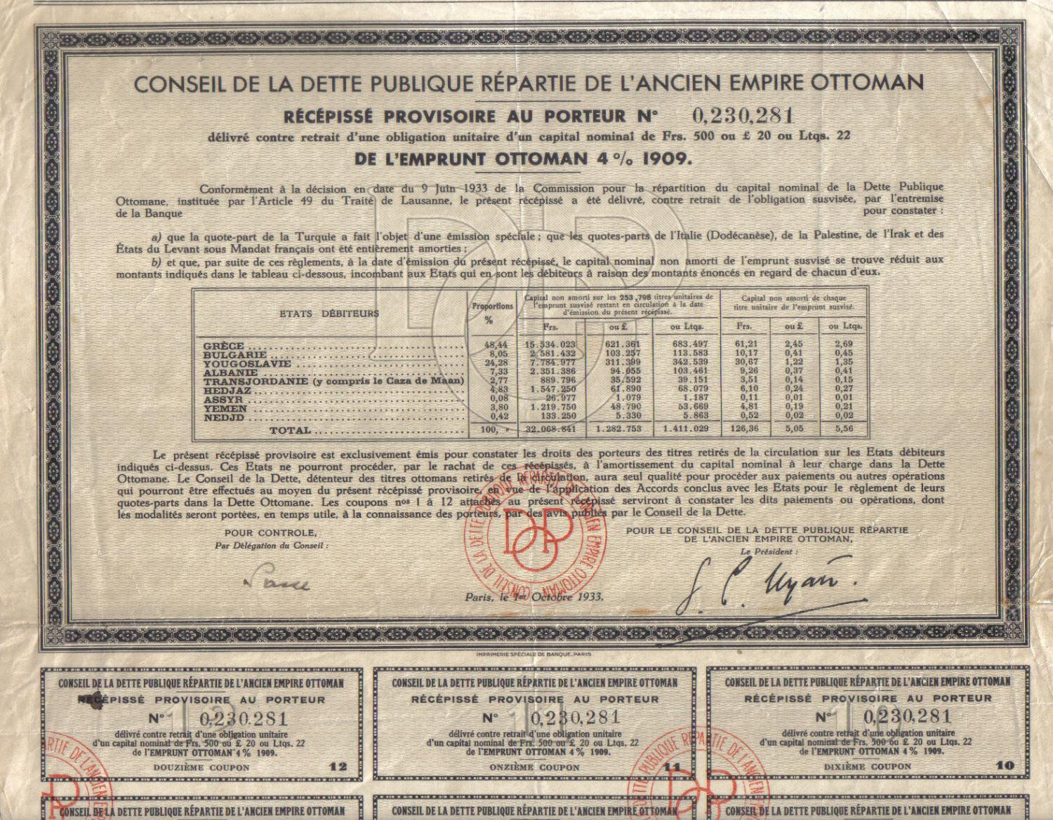 1933 provisional certificate intended for bondholders of a 1909 public loan contracted by the defunct Ottoman Empire. The certificate lists the financial obligations incurred by successor states of the Ottoman Empire (aside of the Republic of Turkey) in relation to that loan. The share of each of those state is related to portions of their territory that belonged to the Ottoman Empire when the loan was contracted. Greece, which had annexed most of Macedonia and Epirus, has the highest obligation due to both the size and the wealth of the territories annexed. The definitive allotment of the successor states obligations was decided by an international commission in June 1933.